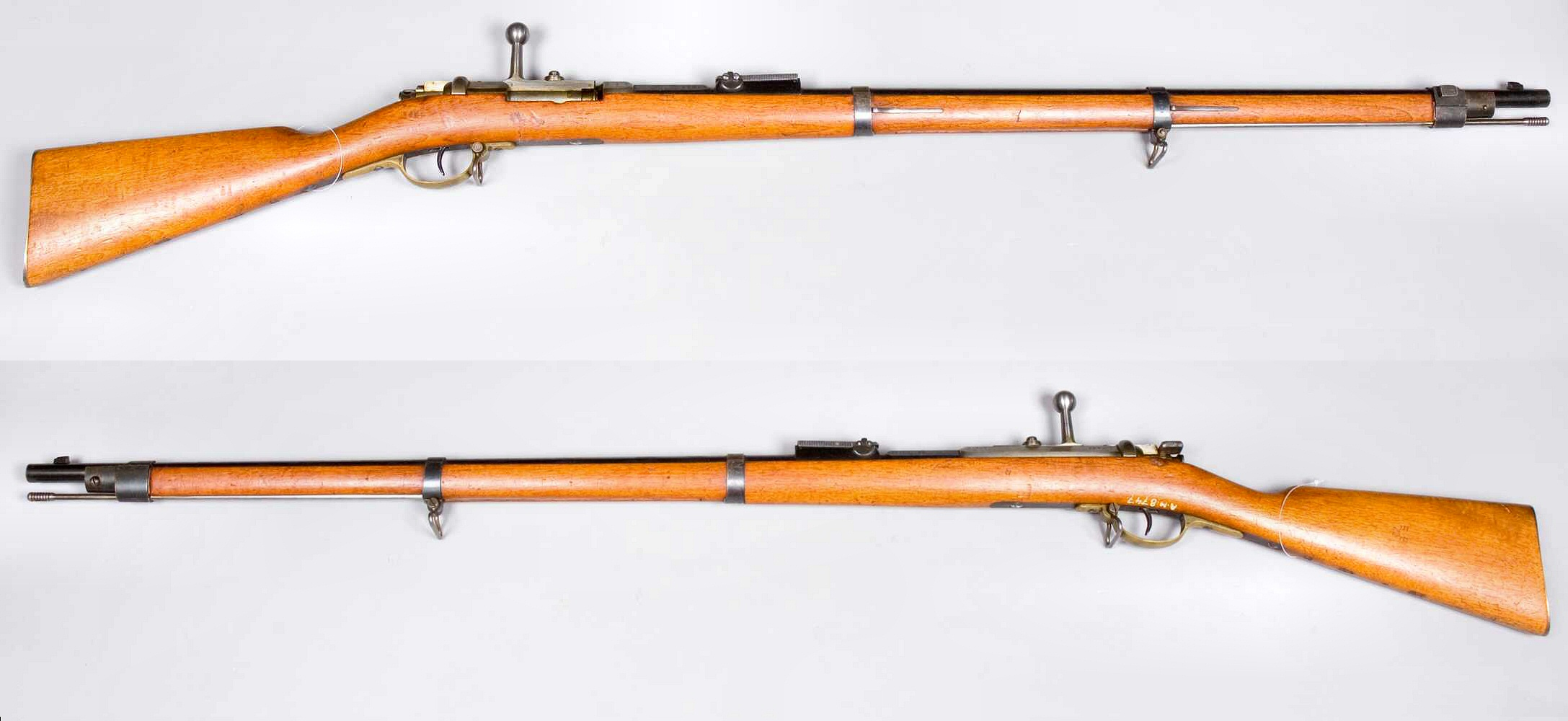 Infanteriegewehr m/1871 Mauser, Germany. Caliber 10.95mm. From the collections of Armémuseum (Swedish Army Museum), Stockholm.